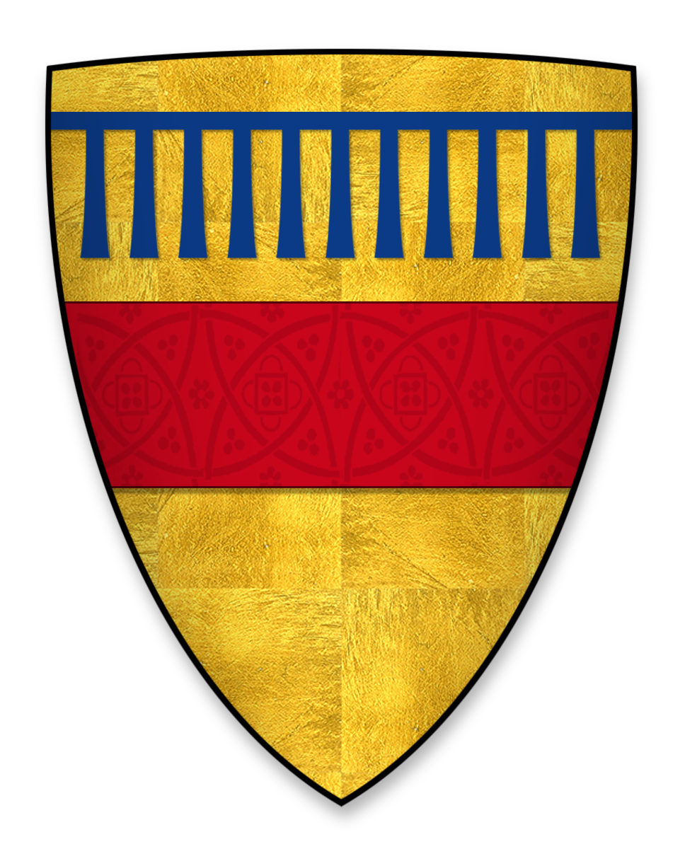 Coat of arms of Saire de Quincy, Earl of Winchester